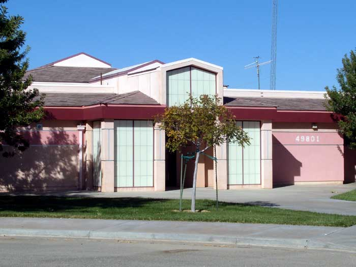 Neenach Elementary School in Neenach, California, October 2008. This school was closed because of dwindling population and high energy costs. Photo by George Garrigues.